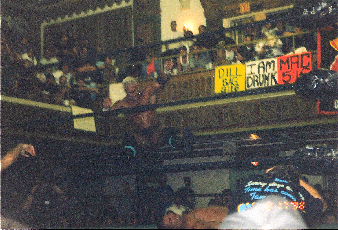 on Lance Storm. Sorry I'm a big Candido fan! RIP Chris.